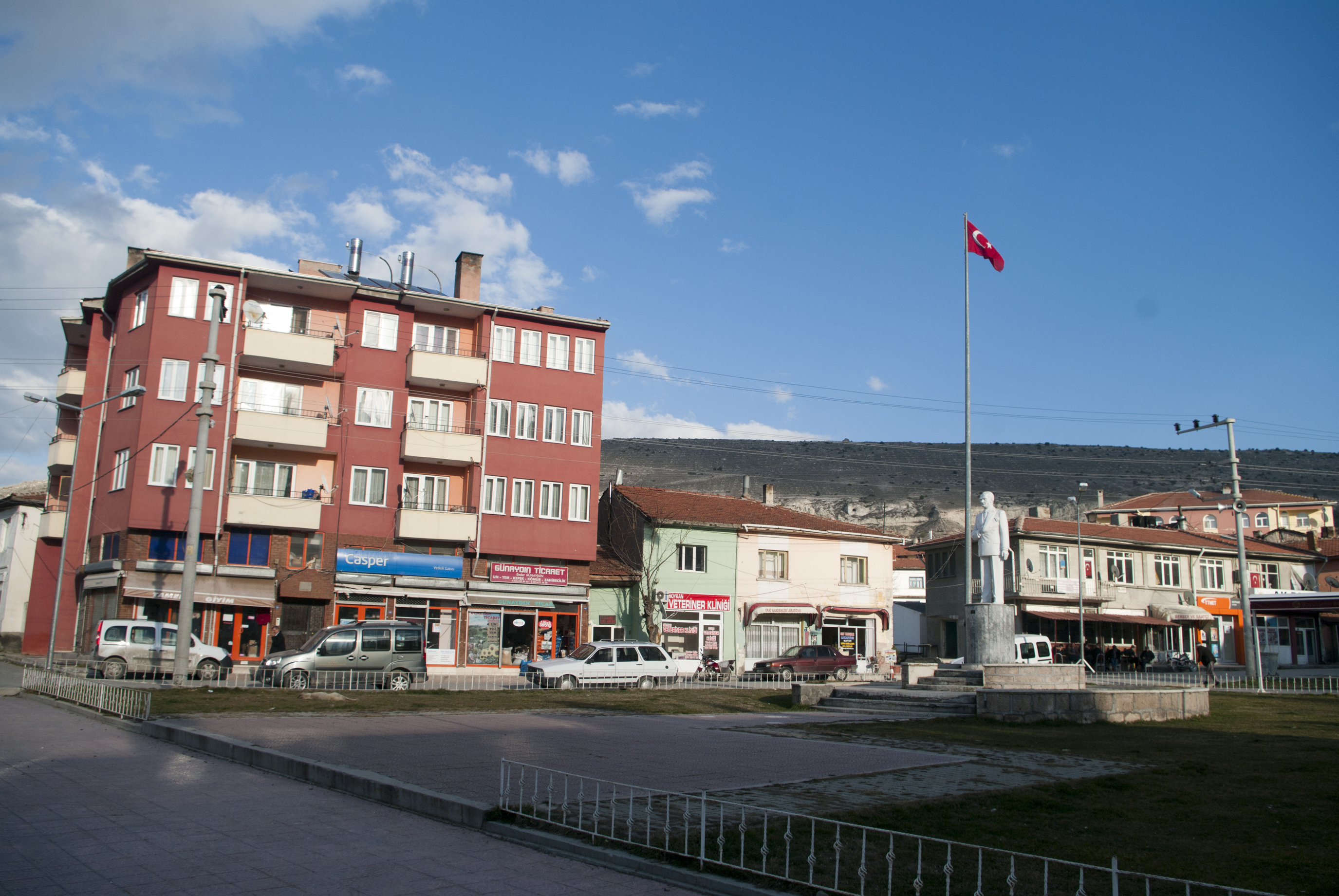 Square between Kurtuluş Caddesi and Hamamyolu Caddesi in Seyitgazi, Eskişehir - Turkey.